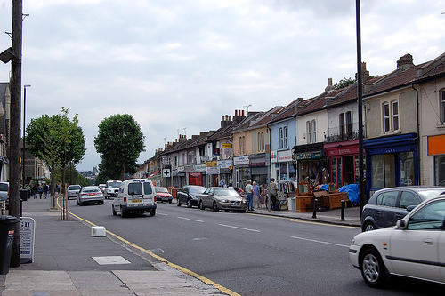 A38 Gloucester Road in Bishopston, Bristol.